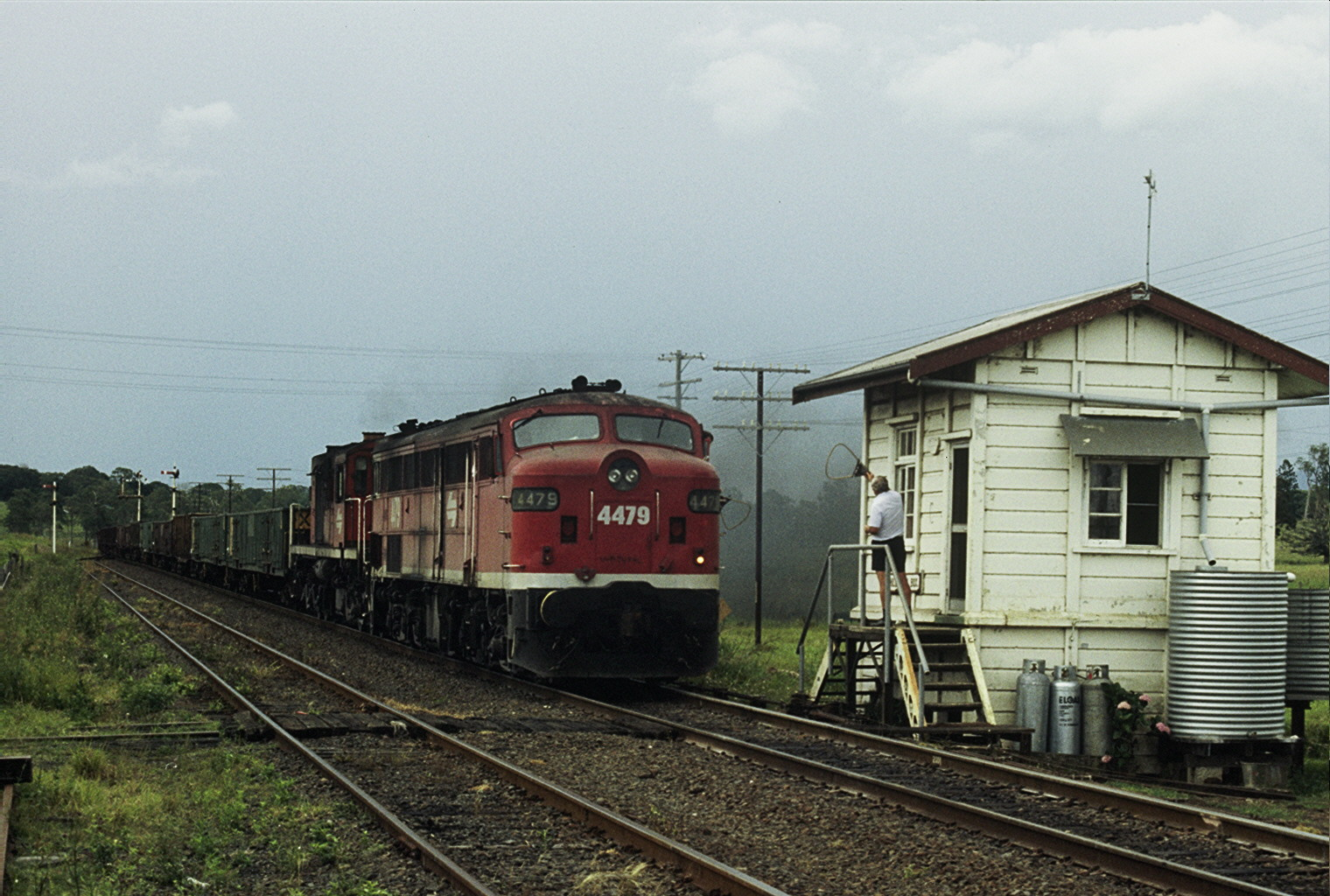 NSWR loco 4479 and a 45 class haul a goods train about to exchange electric staffs at Fairy Hill, north of Casino, 1987